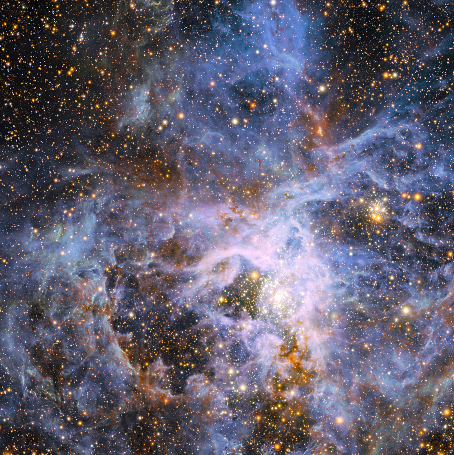 This view shows part of the very active star-forming region around the Tarantula Nebula in the Large Magellanic Cloud, a small neighbour of the Milky Way. At the exact centre lies the brilliant but isolated star VFTS 682 and to its lower right the very rich star cluster R 136. The origins of VFTS are unclear — was it ejected from R 136 or did it form on its own? The star appears yellow-red in this view, which includes both visible-light and infrared images from the Wide Field Imager at the 2.2-metre MPG/ESO telescope at La Silla and the 4.1-metre infrared VISTA telescope at Paranal, because of the effects of dust.